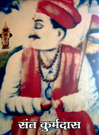 Ashadhi Yatra